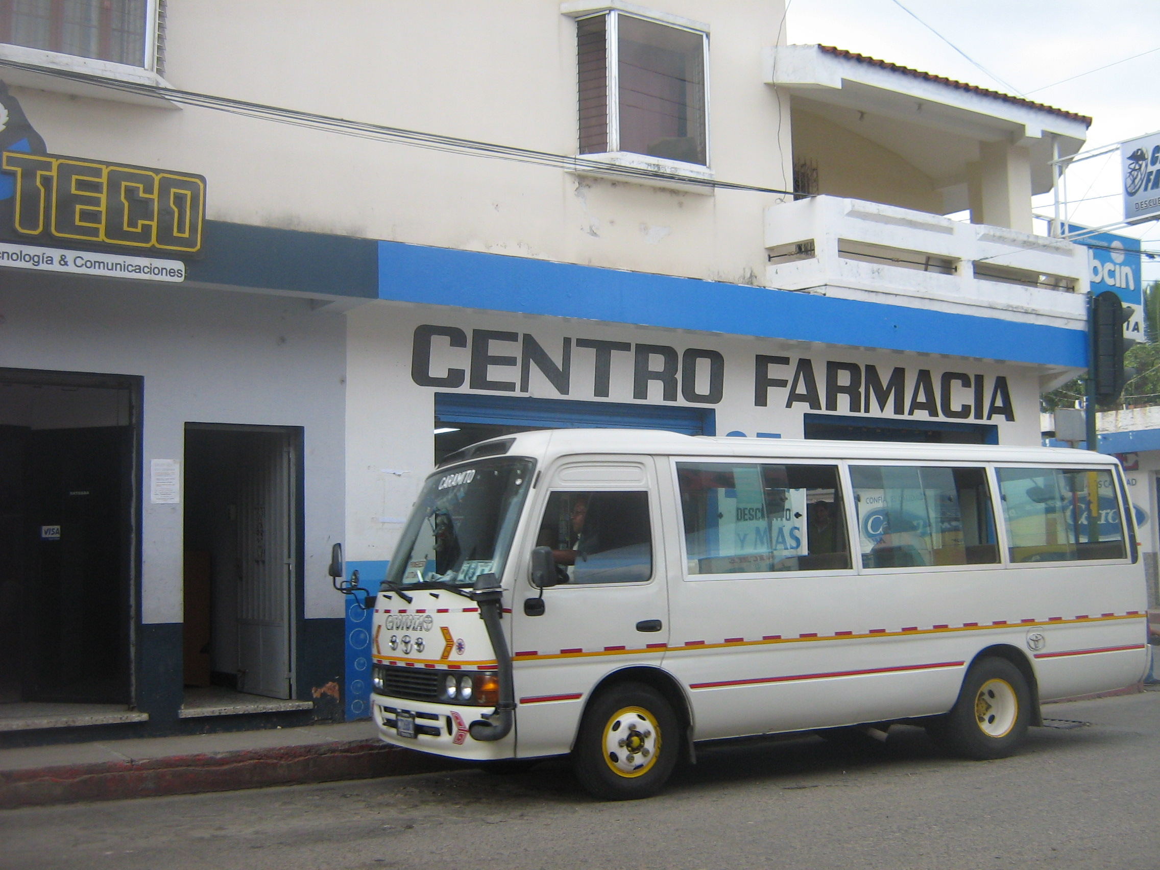 This is the transport of El Progreso Jutiapa. The bus was headed to the Jutiapa department head.